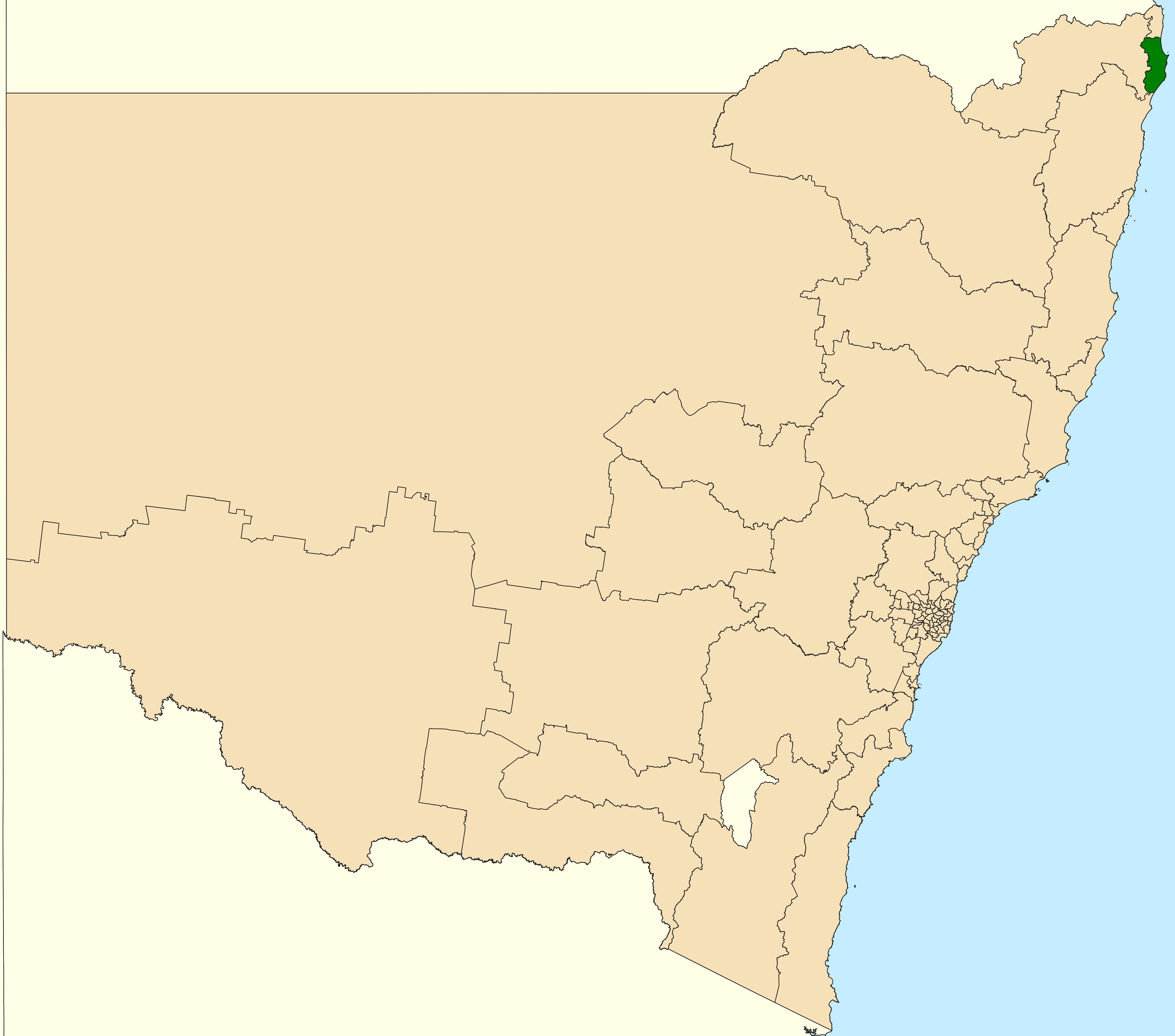 Location of the state electoral district of Ballina (dark green) in New South Wales as of the 2019 New South Wales state election. Incorporates or developed using Administrative Boundaries ©PSMA Australia Limited licensed by the Commonwealth of Australia under Creative Commons Attribution 4.0 International licence (CC BY 4.0).